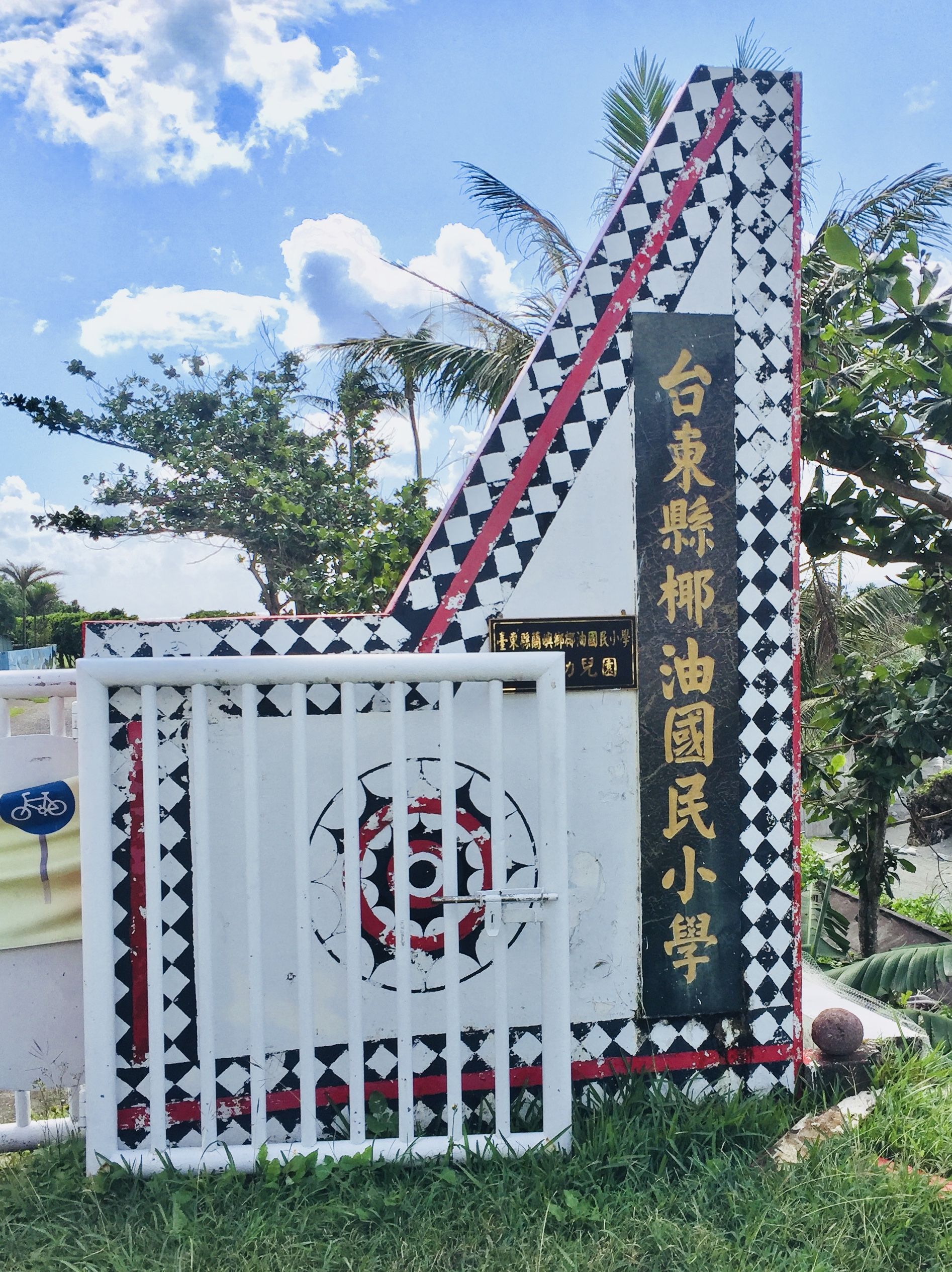 Yayu Elementary School, Orchid Island, Taitung, Taiwan